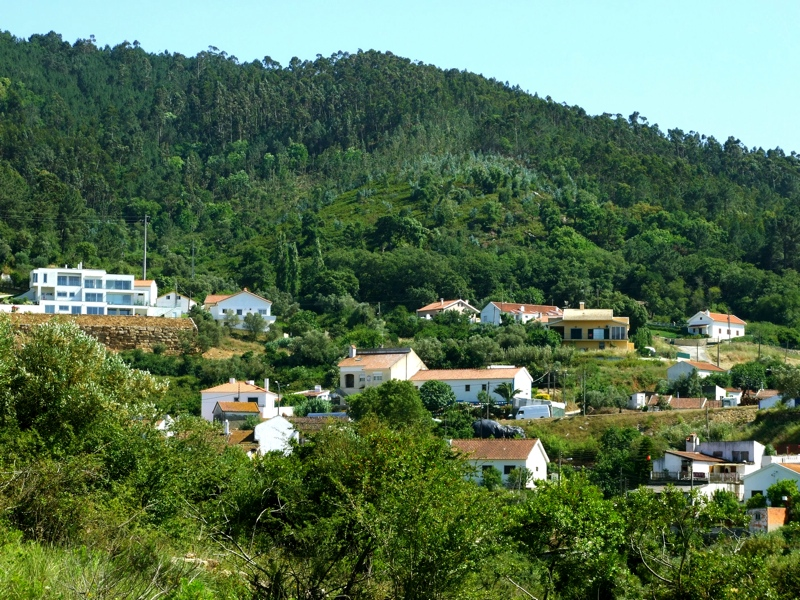 View of Monfirre, Santo Estevão das Galés